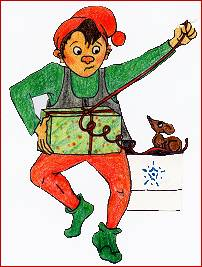 Kravlenisse (maybe Christmas elf ?), a Danish Christmas tradition